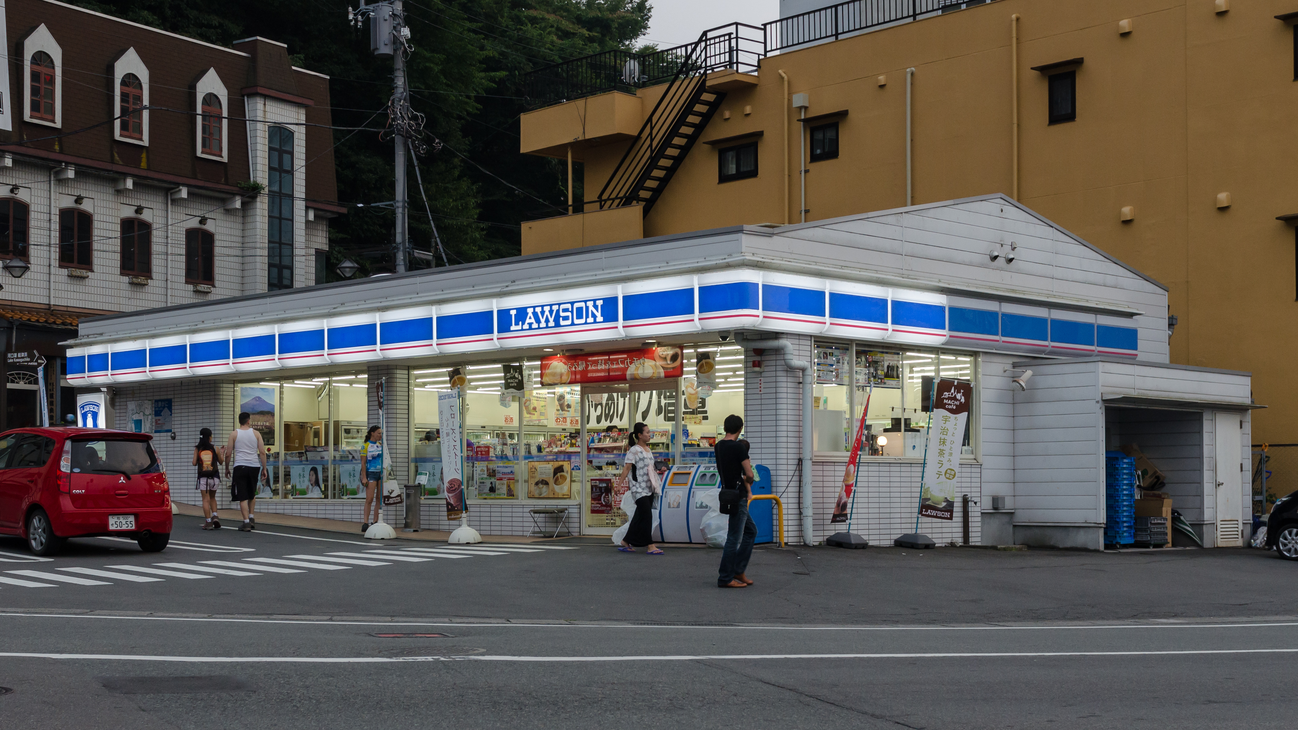 A Lawson convenience store in Fujikawaguchiko, Yamanashi, not far from the lake